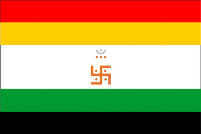 The Jain flag has five colours – red, yellow, white, green and black (or blue). The stripes of red, yellow, green and black are equal in breadth and the white stripe is double their breadth. The Swastika, in the center of the flag, is saffron in colour. The five colours symbolize the Five Worshipful Beings (Pañca-Parameṣṭhi) Image source is (File:In-jain.gif) which had a wrong swastika in the center. This mistake has been corrected in this image.